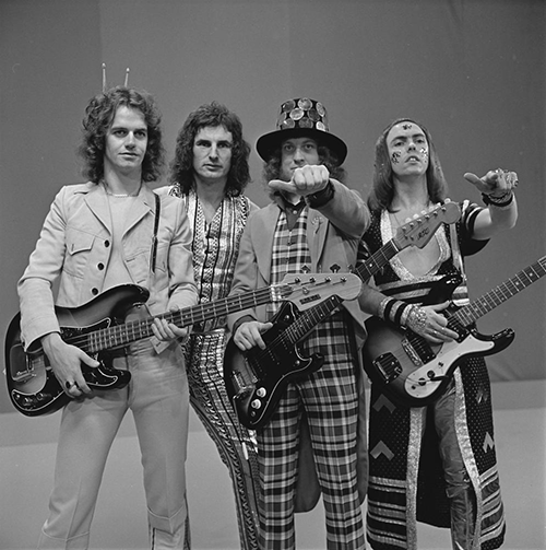 Slade in AVRO's TopPop (Dutch television show) in 1973